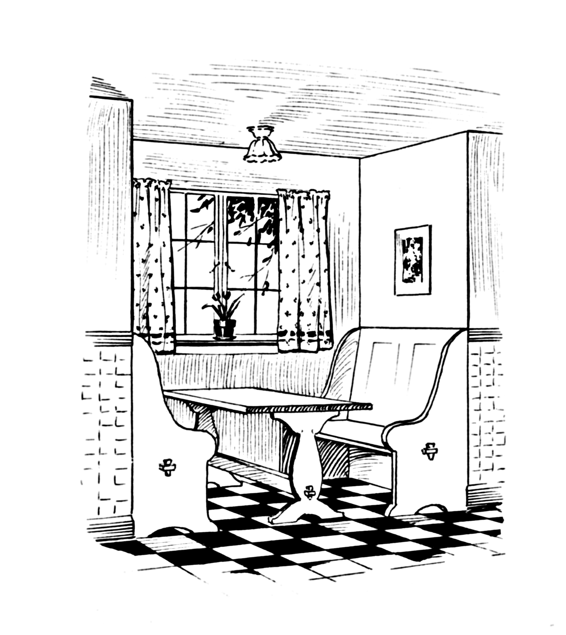 Line art drawing of an alcove.